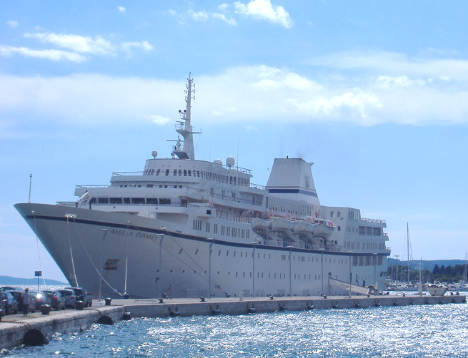 MV Aegean Odyssey, photographed at dock in Split, Croatia